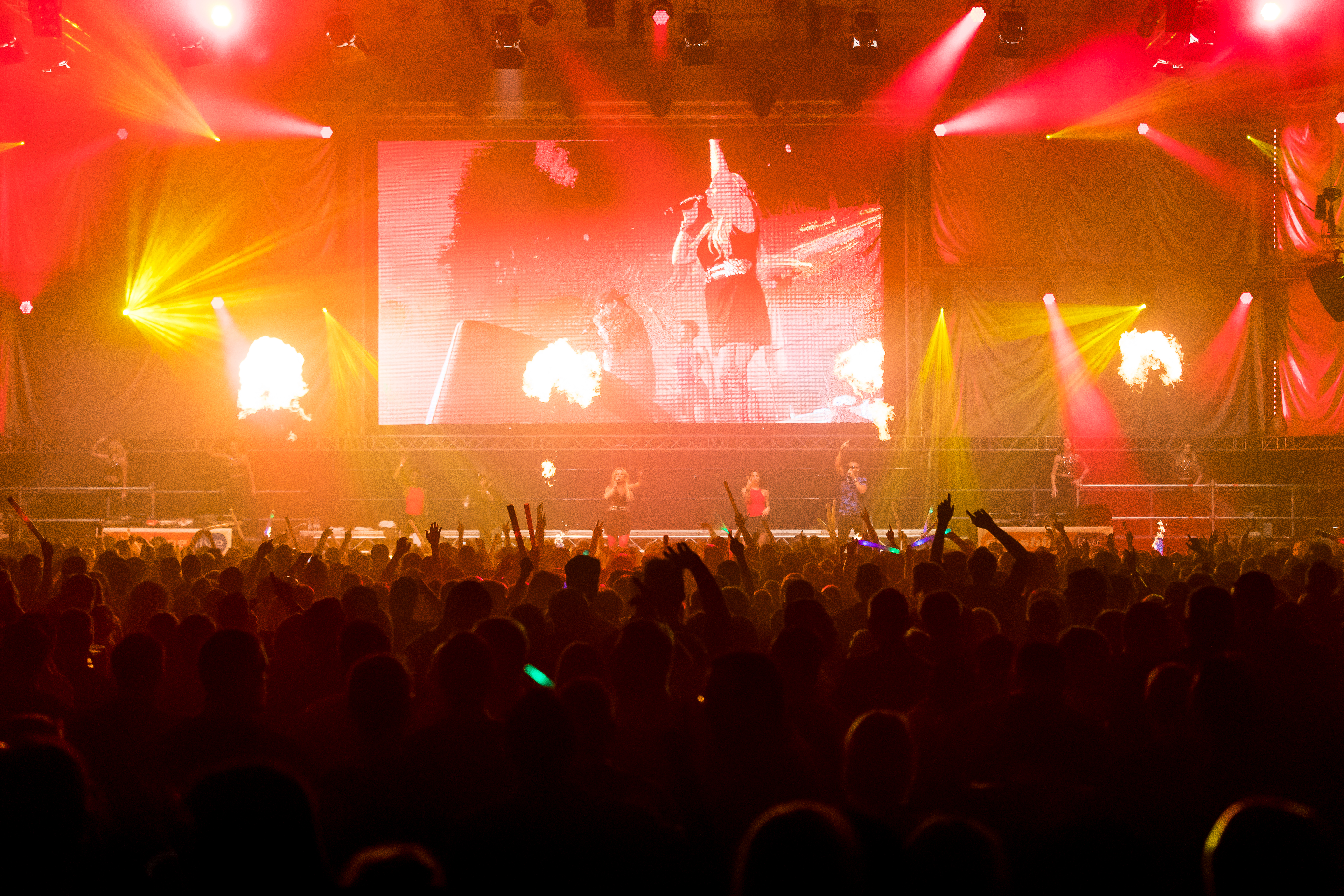 2 Brothers on the 4th Floor during Sunshine Live - 90er Live on Stage at Maimarkt Halle, Mannheim, Baden Württemberg, Germany on 2016-11-27, Photo: Sven Mandel DJ Falk, E-Rotic, Twenty 4 Seven, Rednex, Vengaboys, Masterbox feat. Beatrix Delgado, 2 Brother on the 4th Floor, 2 Unlimited, Interactive, Charly Lownoise, Marusha